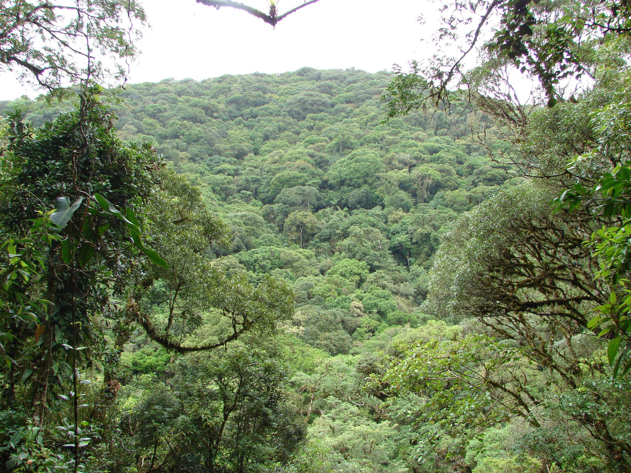 Carlos Botelho State Park, in Brazil. Atlantic forest.